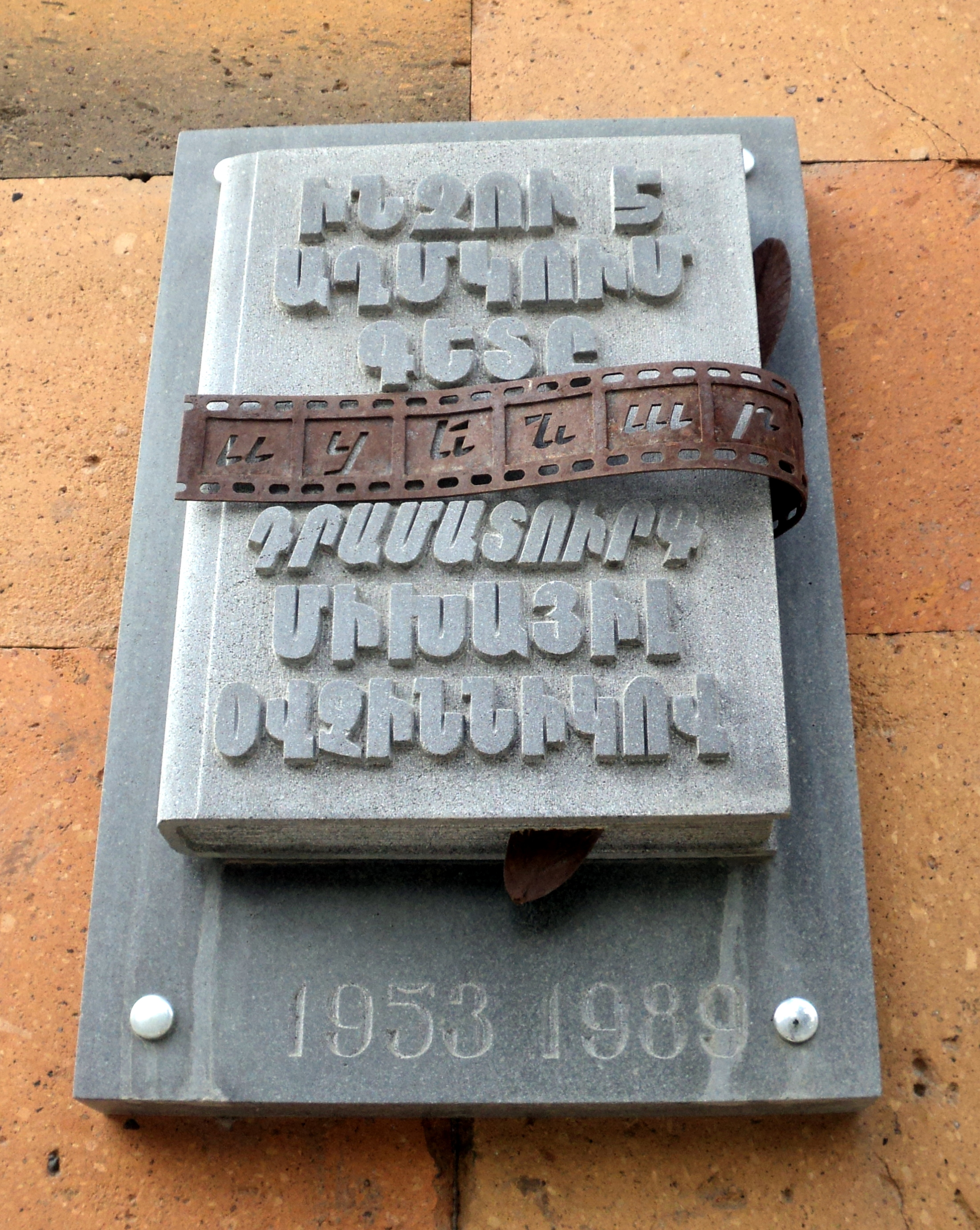 Mikhayil Ovchinikov's plaque, Yerevan